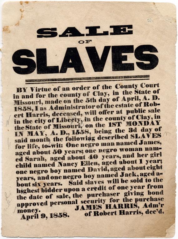 Archive (Slave Announcements)